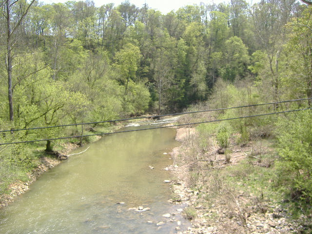 Fourteen Mile Creek, looking downstream from the public bridge near John Work House and Mill Site outside Charlestown.